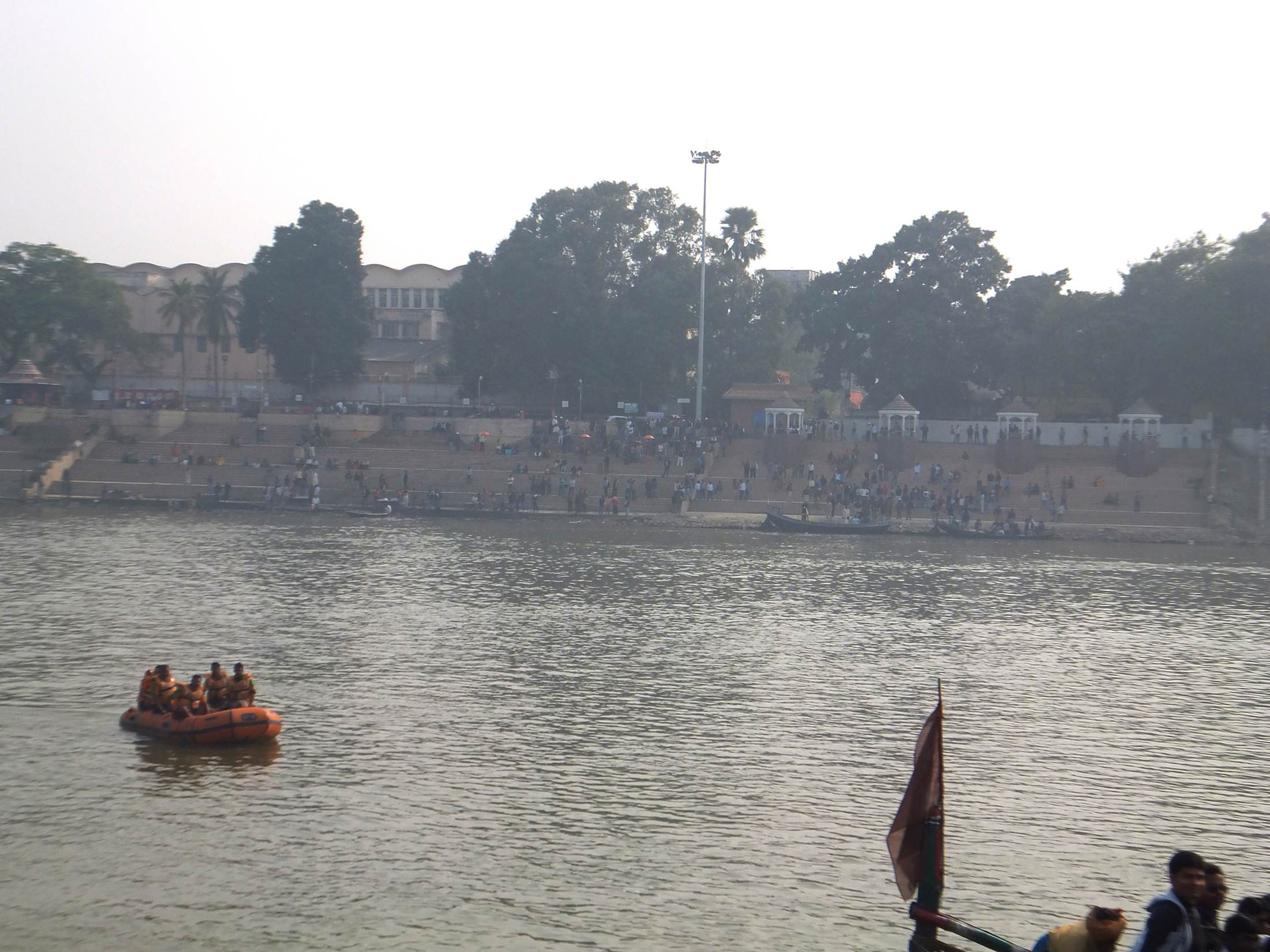 Gandhi Ghat, near NIT Patna